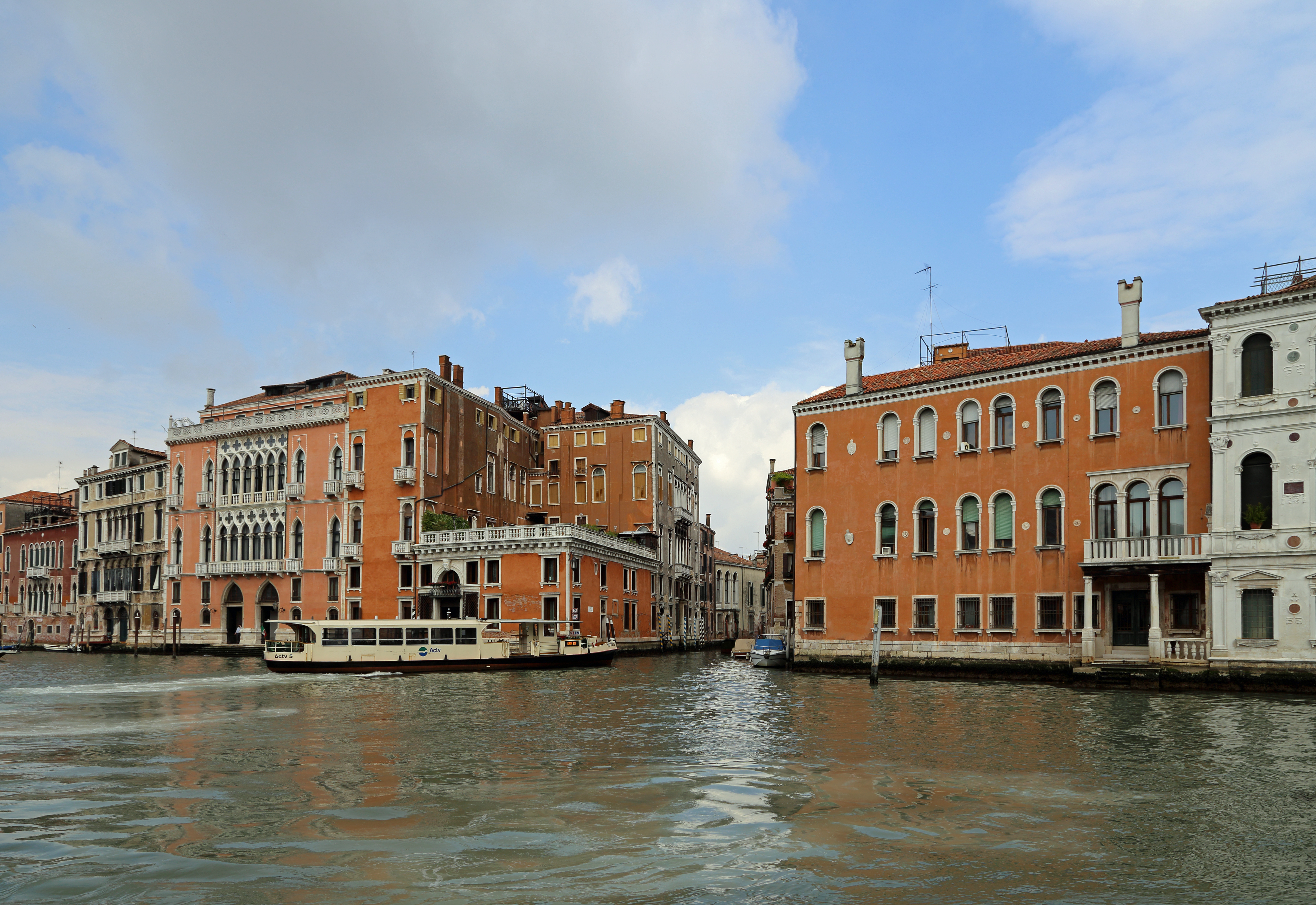 Venice (Italy): the Canal Grande and the Rio San Polo. With the following palazzi: Palazzo Tiepolo, Palazzo Pisani Moretta (gothic style), Palazzo Barbarigo della Terrazza (left corner of Rio San Polo), Palazzo Cappello Layard (right corner of Rio San Polo).